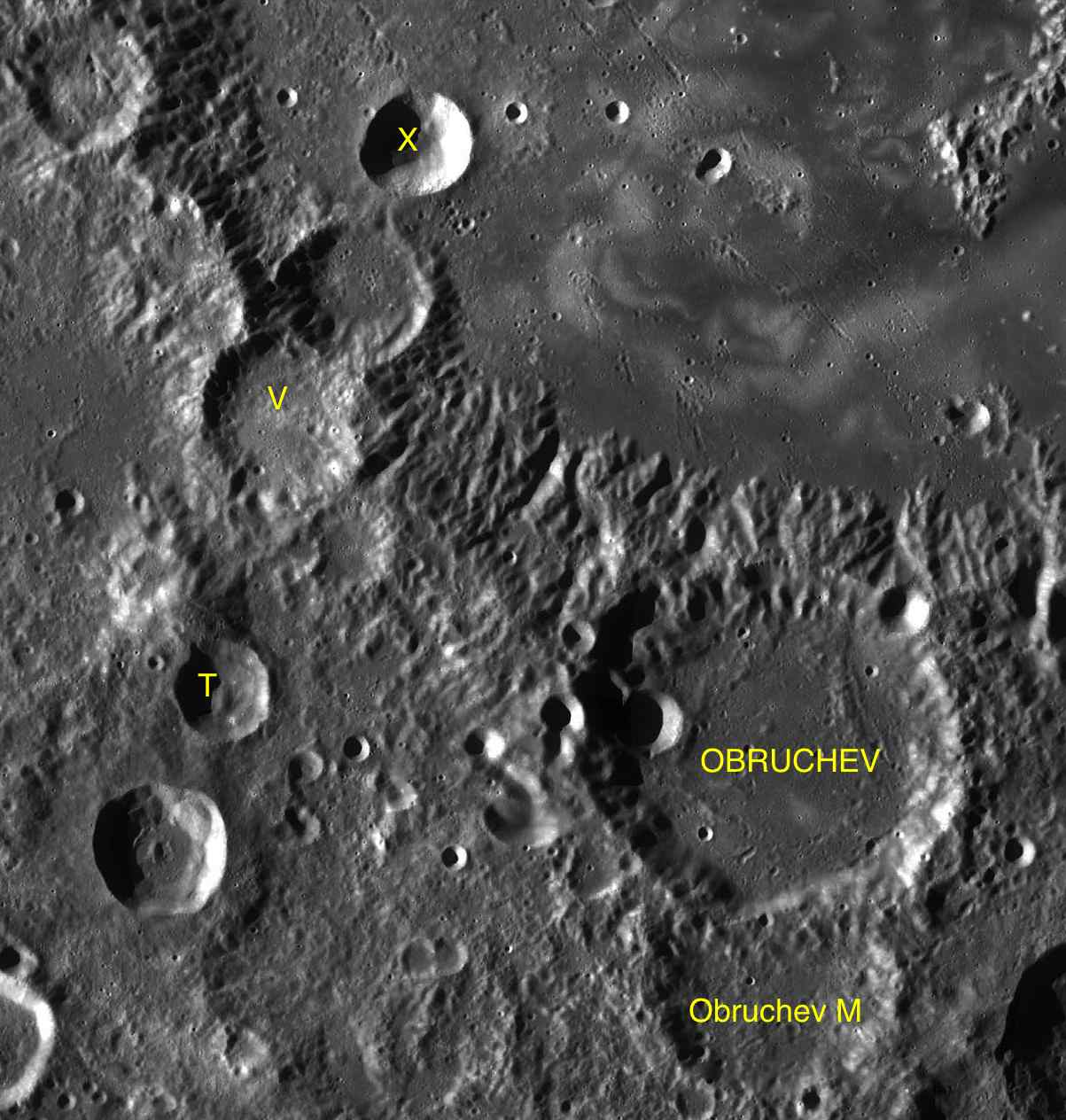 Part of the chart LAC-119 used for the presentation